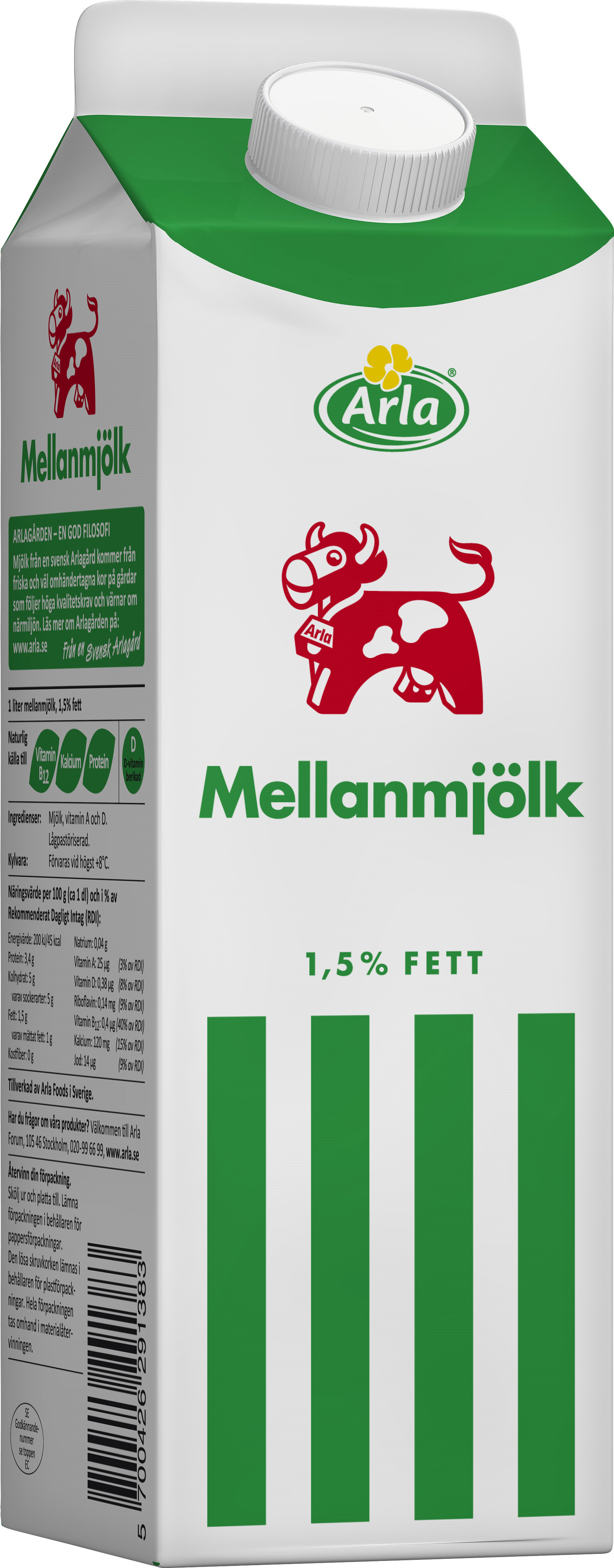 Semi-skimmed milk (1.5% fat) in a rectangular one-litre carton by Arla Foods.